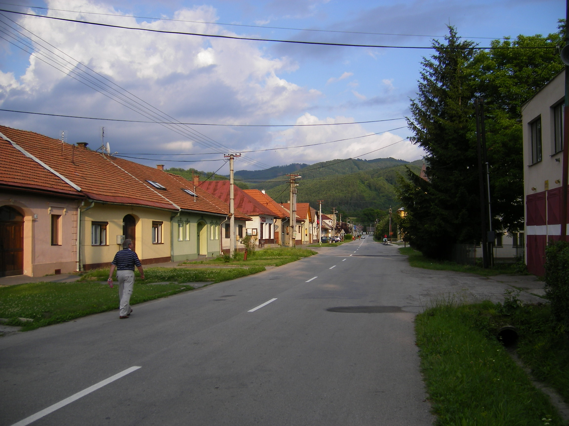 Lučatín (okres Banská Bystrica) main street